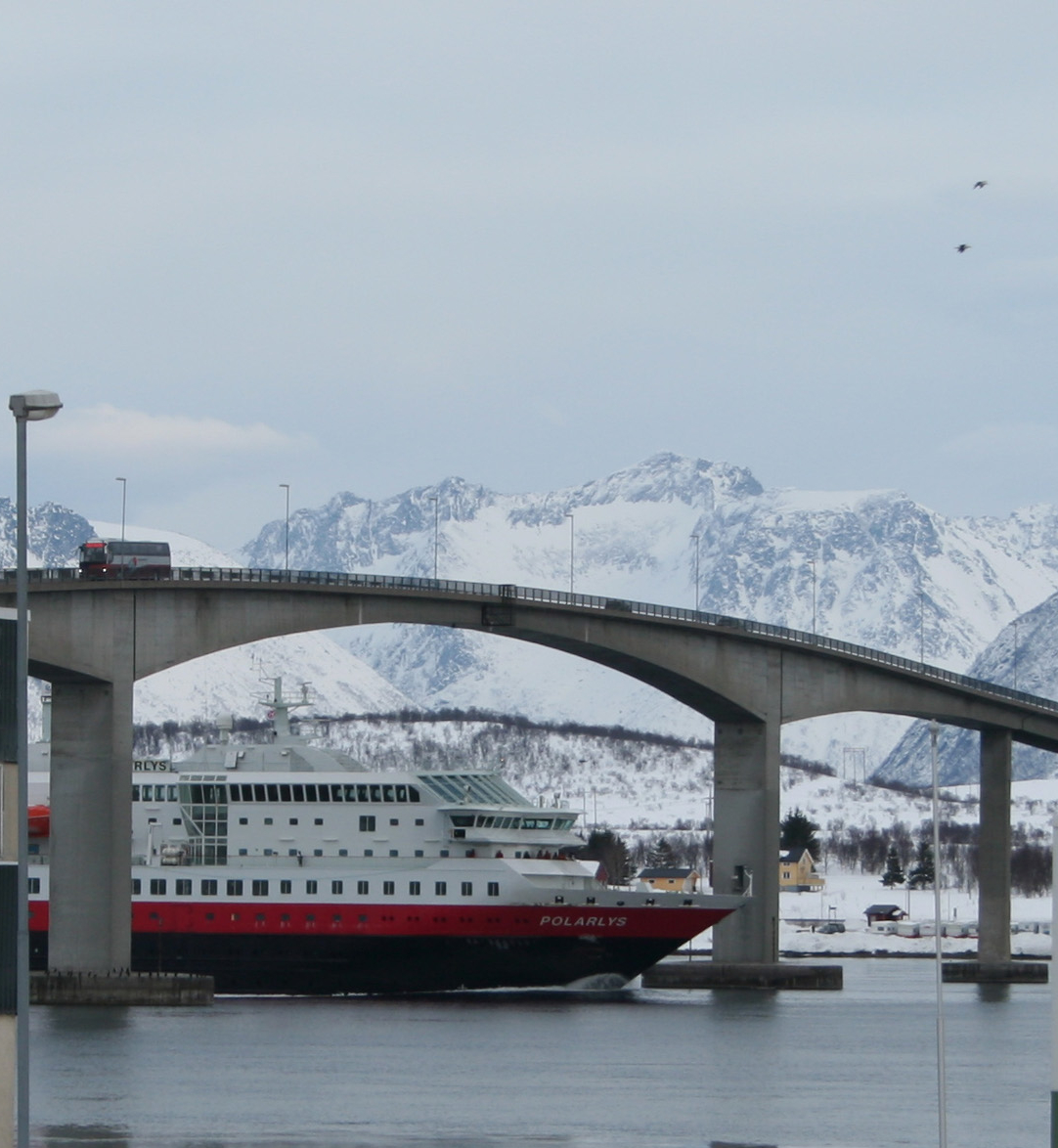 Sortland Bridge and hurtigruta. This photo was taken by me.